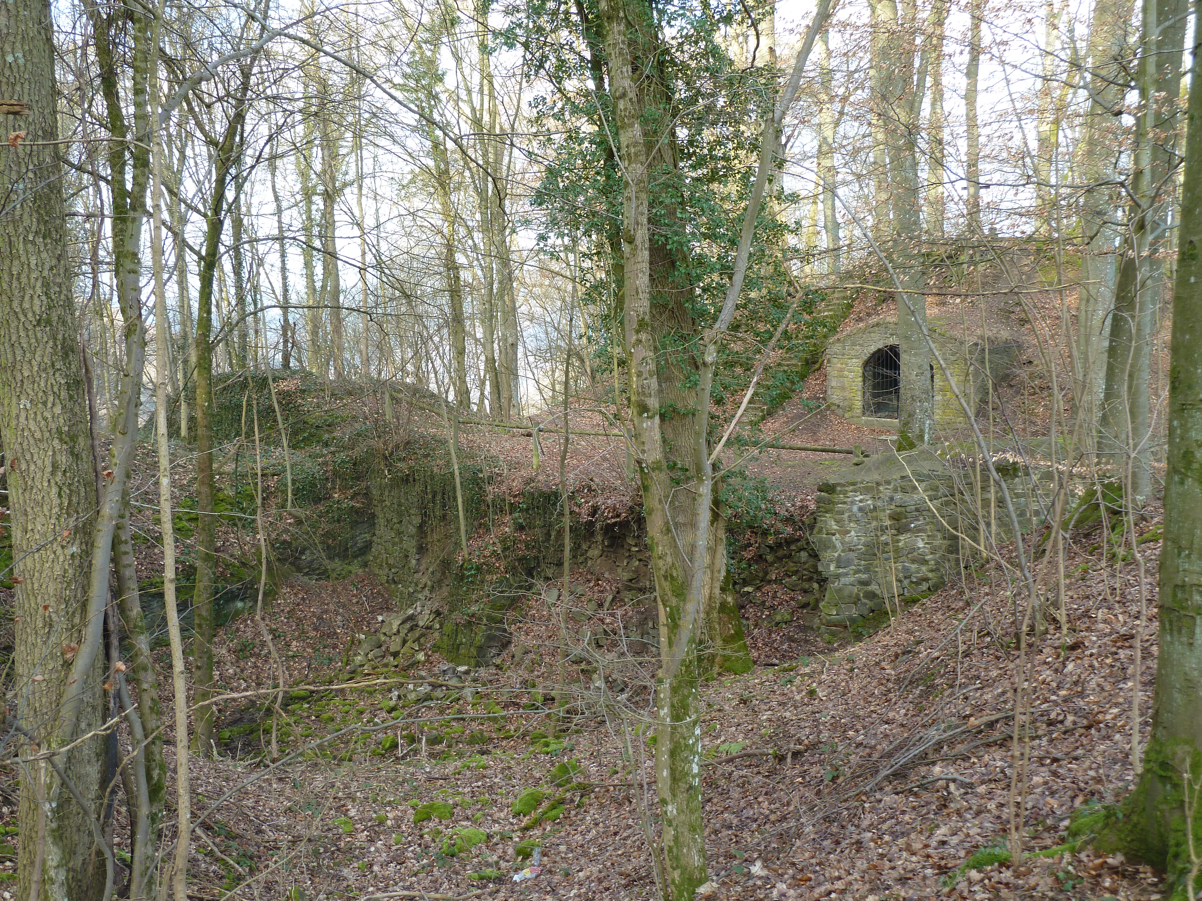 Hermitage and chapel of Saint-Thibaut, Marcourt, Rendeux, Belgium